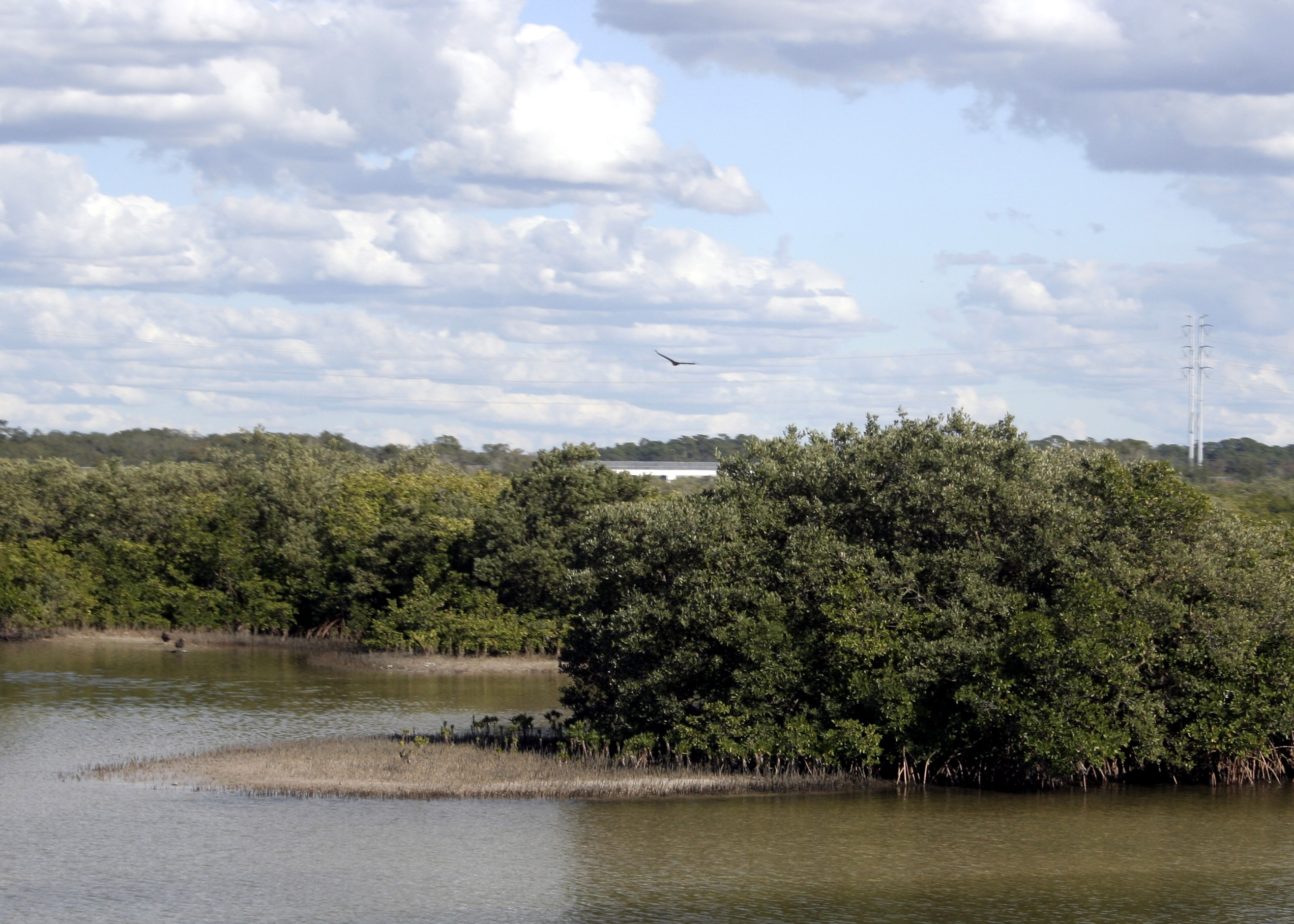 Anclote River in Tarpon Springs, FL. View is looking East from the ALT US-19 bridge.